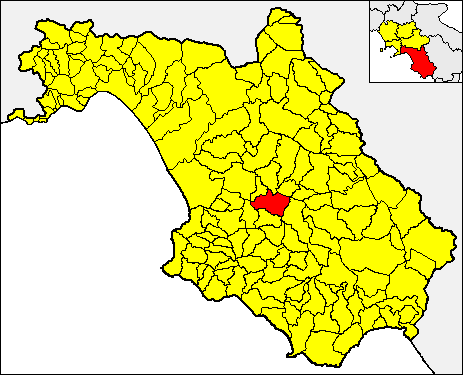 Locator map of the municipality of Felitto (red) within the Province of Salerno